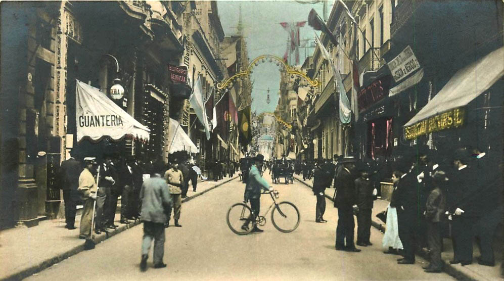 Colored postcard displaying Florida street of Buenos Aires, the main commercial center of the city by then.